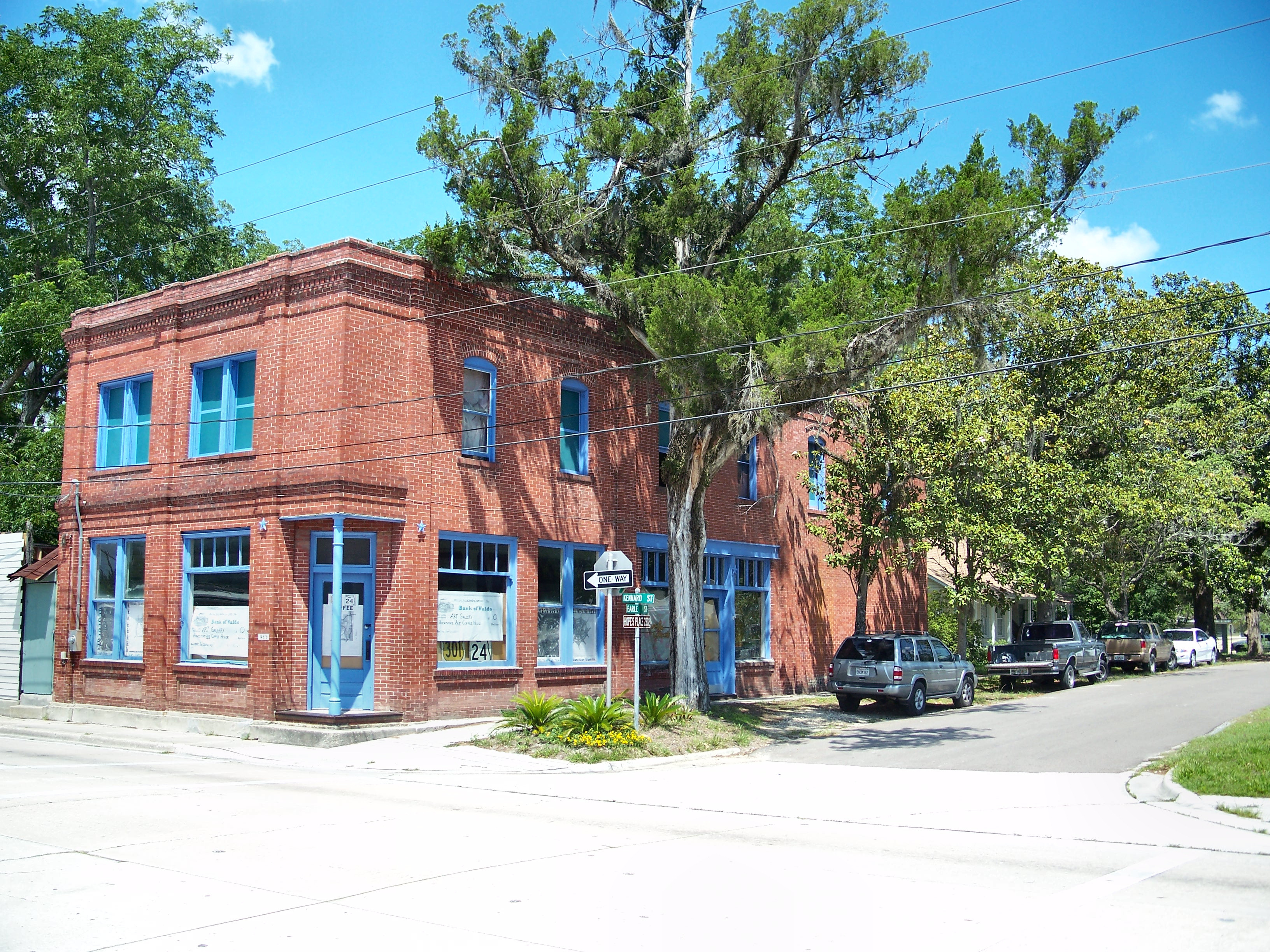 Waldo, Florida: Old Schenk Hardware building, now Bank of Waldo in the historic district. Built in 1913.